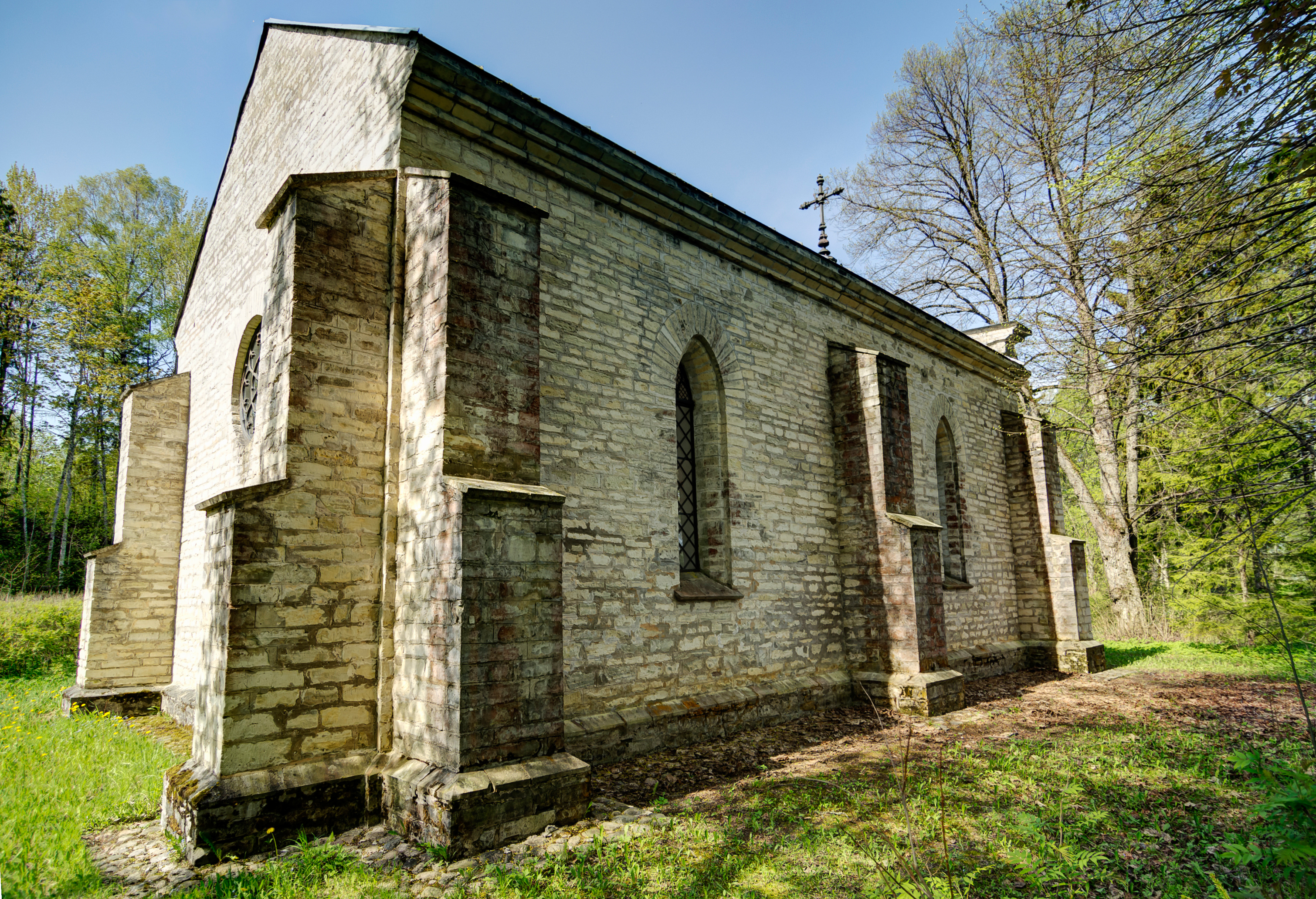 Backside of Von Toll's chapel